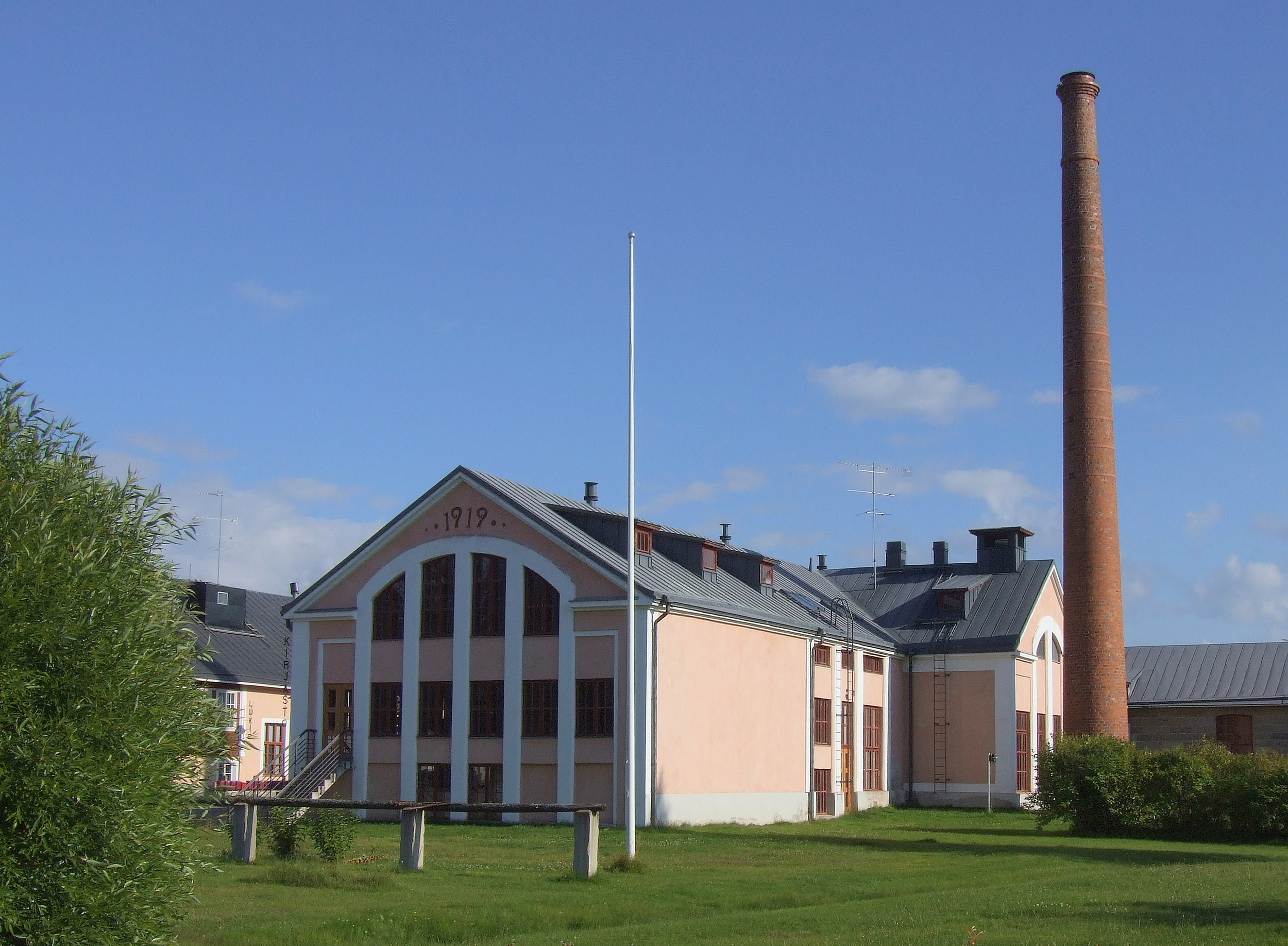 The Library of Tyrnävä. The library building is an old mill built in 1919.